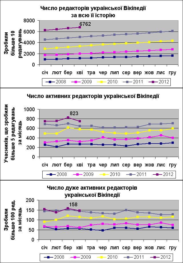 Contributors to Ukrainian Wikipedia with more than 10 edits.